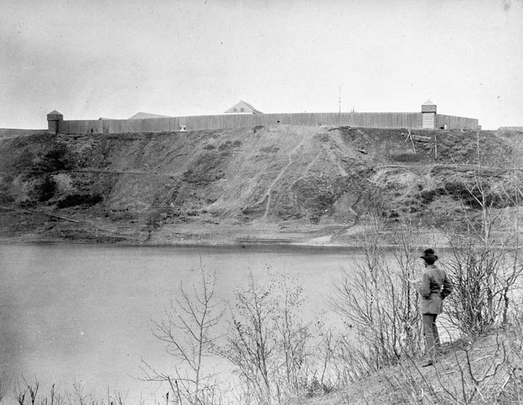 Fort Edmonton, Canada, October 1870. Fort Edmonton or Edmonton House, was the name of a series of Hudson's Bay Company trading posts from 1795 to 1891. The fort competed for business with the North West Company's Fort Augustus from 1795 to 1821. Fort Edmonton was the terminus of the Carlton Trail, the overland route for Métis freighters between Red River and the west. It was also an important stop on the York Factory Express route between Fort Vancouver (Oregon) and London, via Hudson Bay. Fort Edmonton was also called Fort-des-Prairies and Amiskwaskahegan (Beaver Hills House).